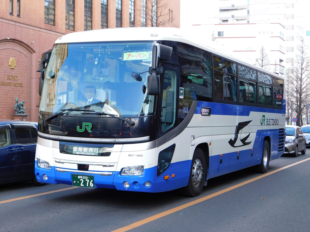 JR Bus Tohoku Hino S'elega (2TG-RU1ASDA)on highwaybus "Urban"(Sendai-Morioka)